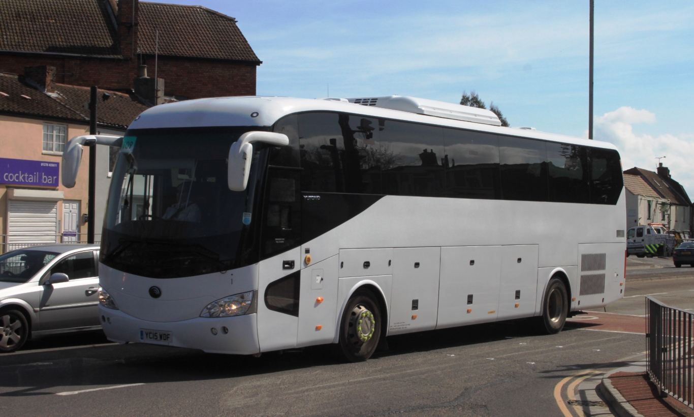 Southern national's number 1 coach, a Yutong ZK6129H registered YC15WDF, heads along the Broadway in Bridgwater towards Hinkley Point.